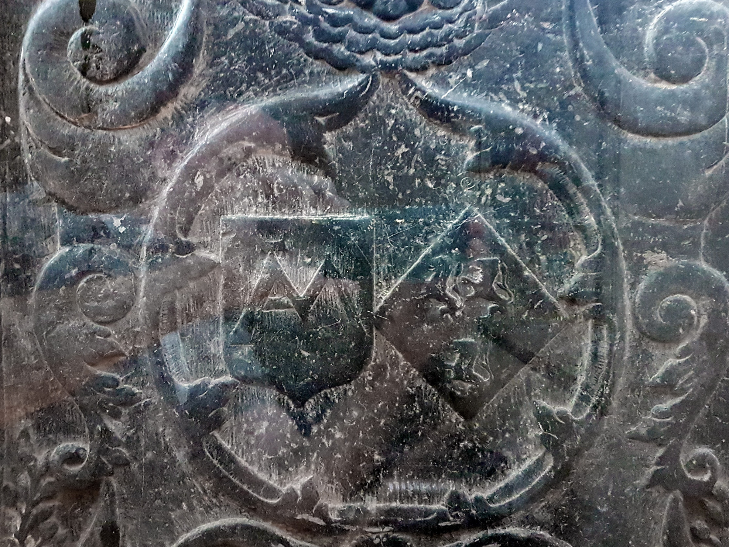 Detail of a ledger stone along the north wall of the nave of Kruisherenkerk in Maastricht, the Netherlands. The Gothic church and monastery of the Croziers (or Crutched Friars) dates from the 15th century and was converted into a luxury hotel in 2003-05. This ledger stone dates from the 1630s and belonged to the families Meesters and Selen. The insciption (not visible here) reads: hier licht begraven den eersaemen / Ardt Meesters sterf den 15 meirt / ao 1633 ende jan selen ao 1637 / den 7 october ende marcellus selen / soene van jan selen iamerlijck vermoort jonckman synde ao 1663 / den 23 october ende Elisabeth van / Offenbeeck hunner beyder huysvrouwe sterf ao 16.. den /. The following line was added later: ende jan meesters sterf ano 1664 / meert ende anna selen sterf den / 19 december 1691(?). Van Nispen tot Sevenaer (1926/1974), p. 253.